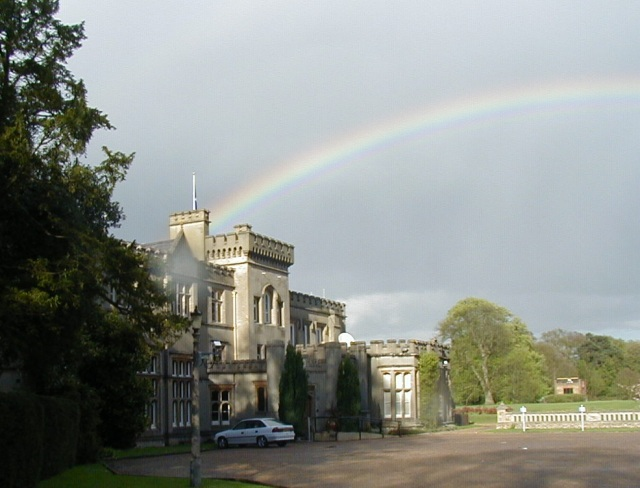 Rainbow over Kingswood Warren. A rainbow can be seen arcing over Kingswood Warren, the location where the BBC's engineering research and development is based. Inventions that have come from the end of this rainbow include NICAM stereo, Teletext and a lot of the work behind digital telelvision in the UK including the Freeview platform. The department is however soon to be vacating this location which it has occupied since 1948 and moving to London W12 and Manchester.